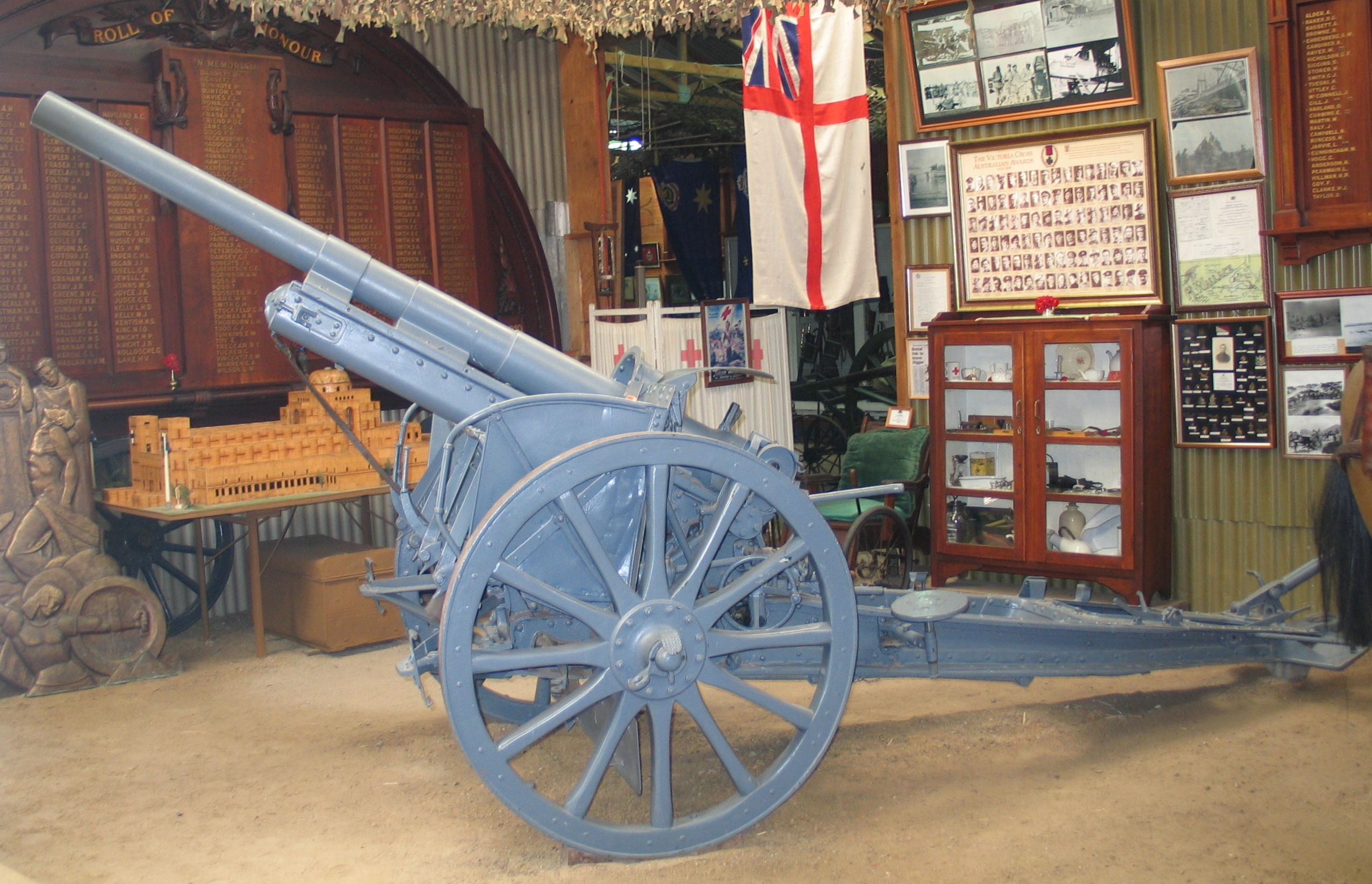 7,7 cm Feldkanone 16 (7,7 cm FK 16) in Light Horse and Field Artillery Museum, Nar Nar Goon, Victoria, Australia.